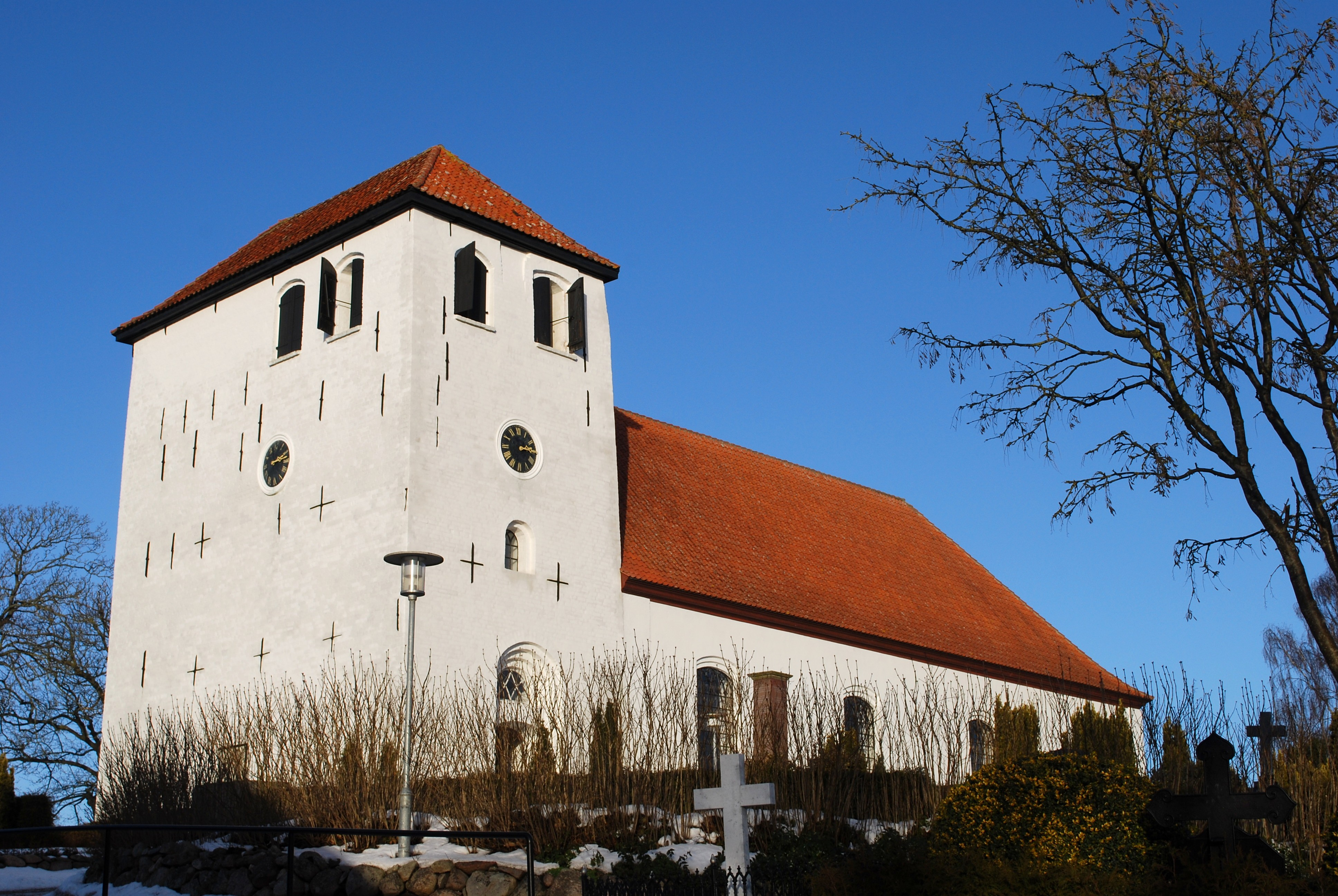 Ketting Kirke, Als, Denmark